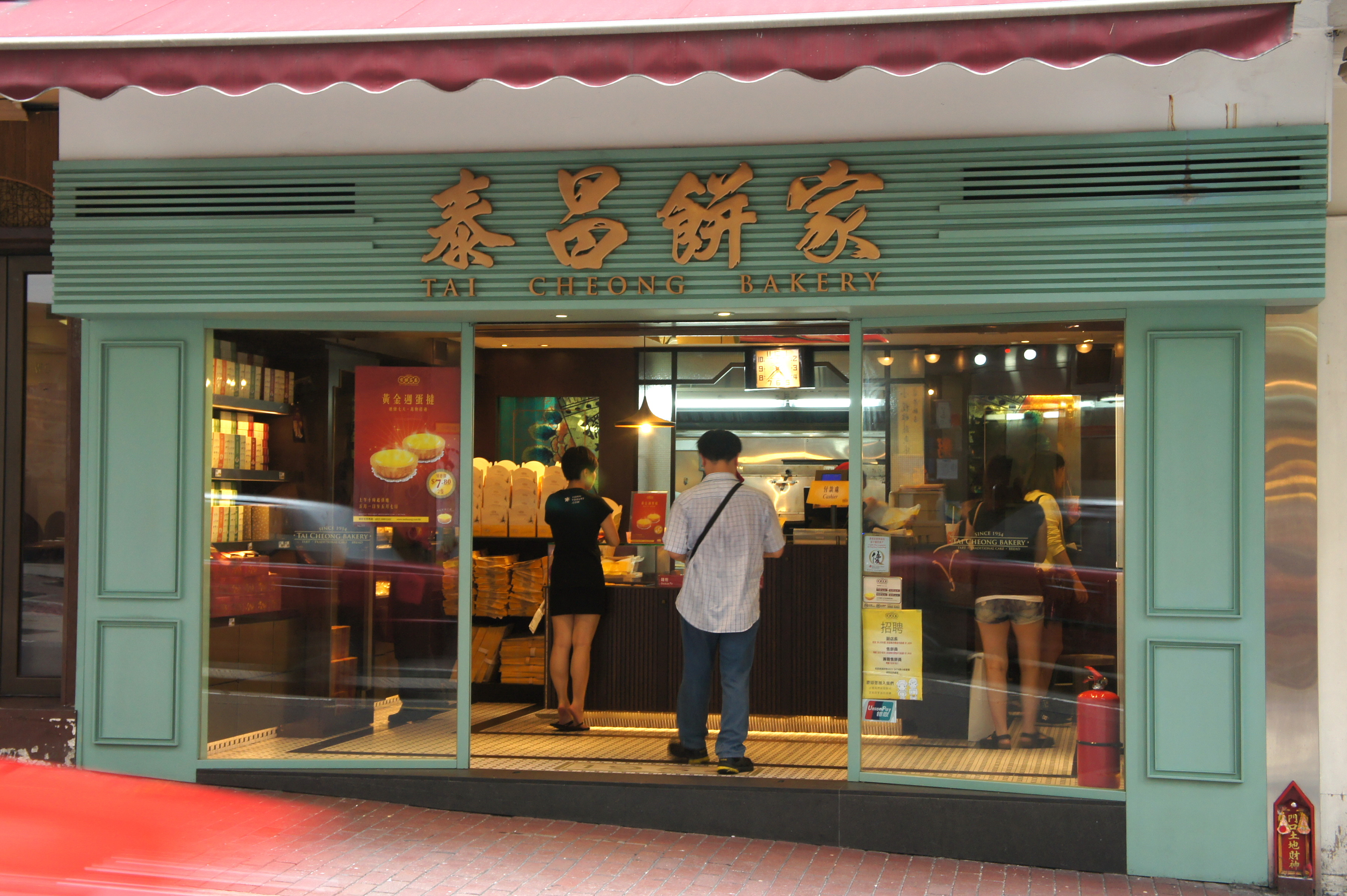 Tai Cheong Bakery, Lyndhurst Terrace, Hong Kong.